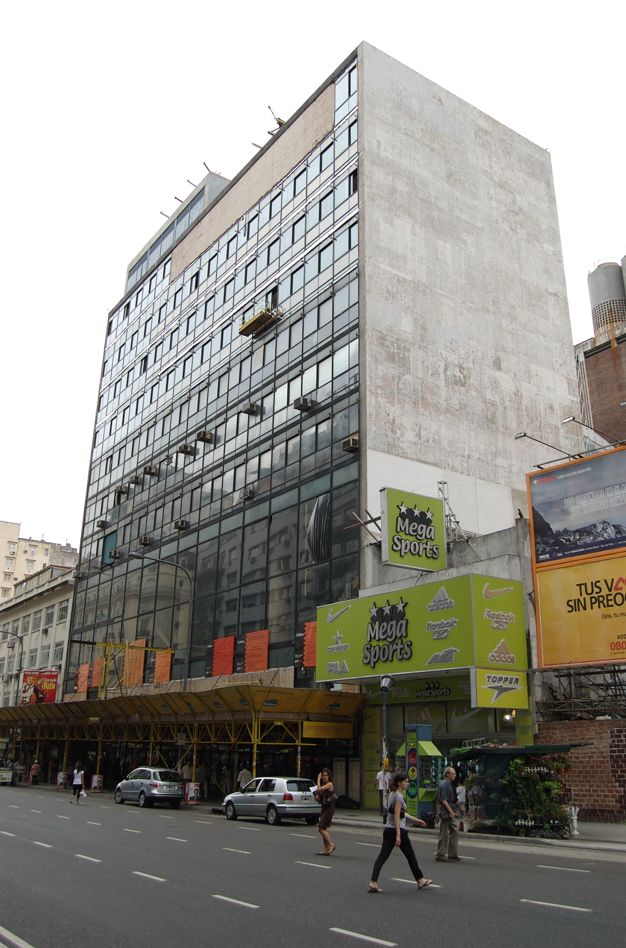 A street view of Teatro San Martín in Buenos Aires, Argentina